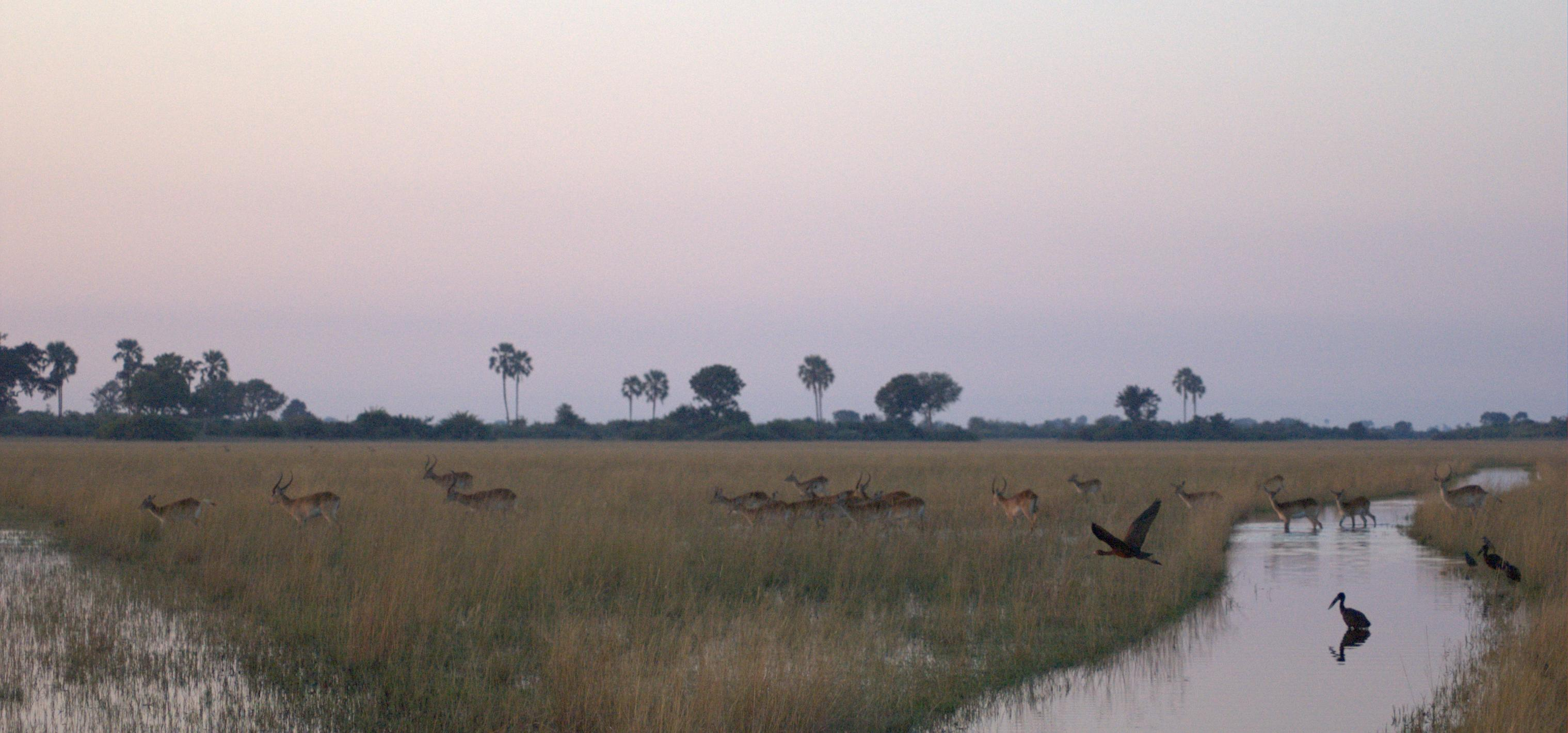 Lechwe Antelopes and some birds in Okavango Delta, Botswana. Shot in June 2005. This and other pictures are available in the Nikon's raw format under a different license. пан Бостон-Київський 20:39, 17 March 2006 (UTC)